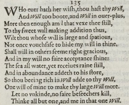 Sonnet 135 in the 1609 Quarto of Shakespeare's sonnets.